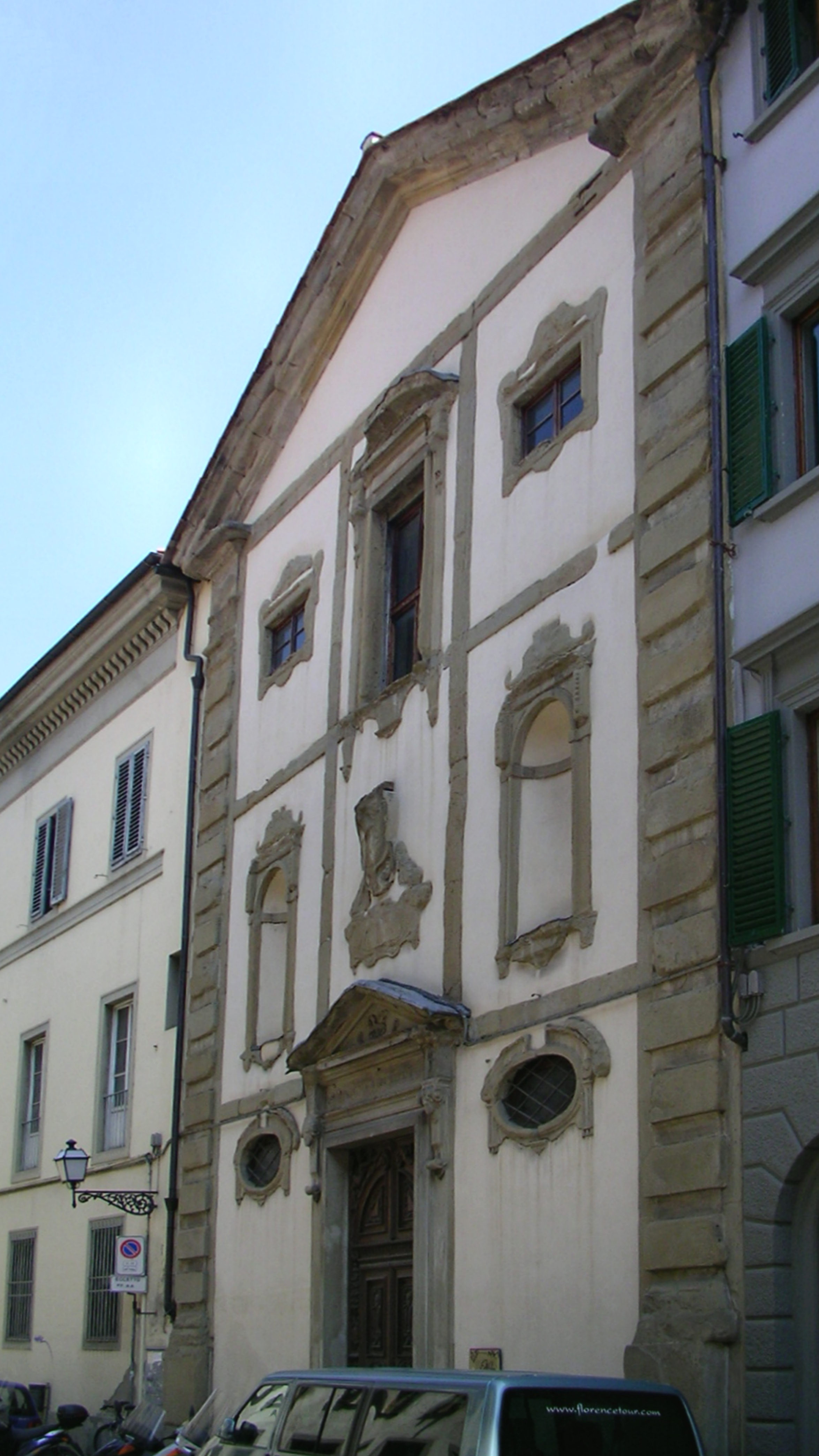 Sant'Agata church front view in Florence, Italy